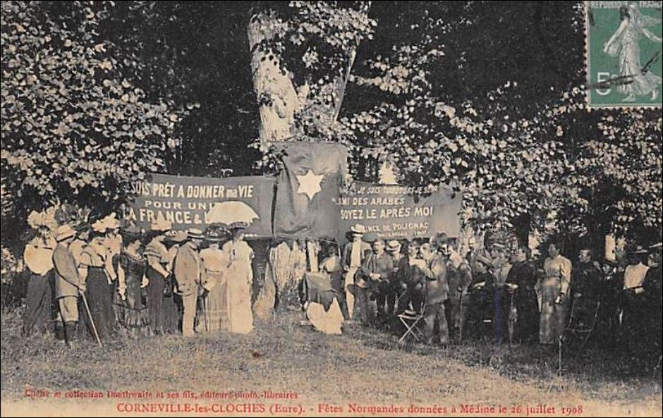 july 26th 1908 Médine